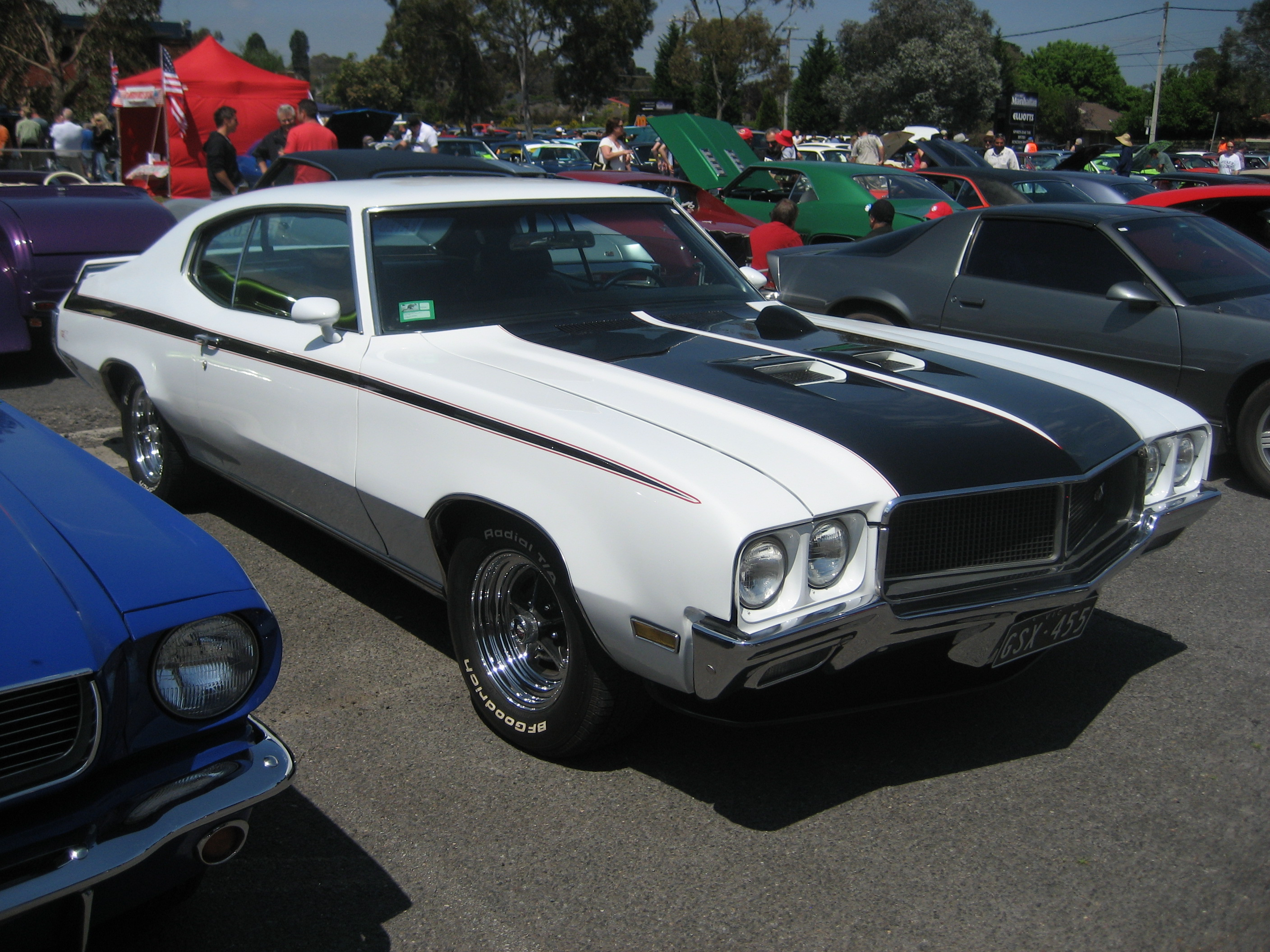 The GSX was an ornamentation package but also available with the Stage 1 performance package. 678 made in 1970, only in Apollo White or Saturn Yellow. Engine 455 cu in V8